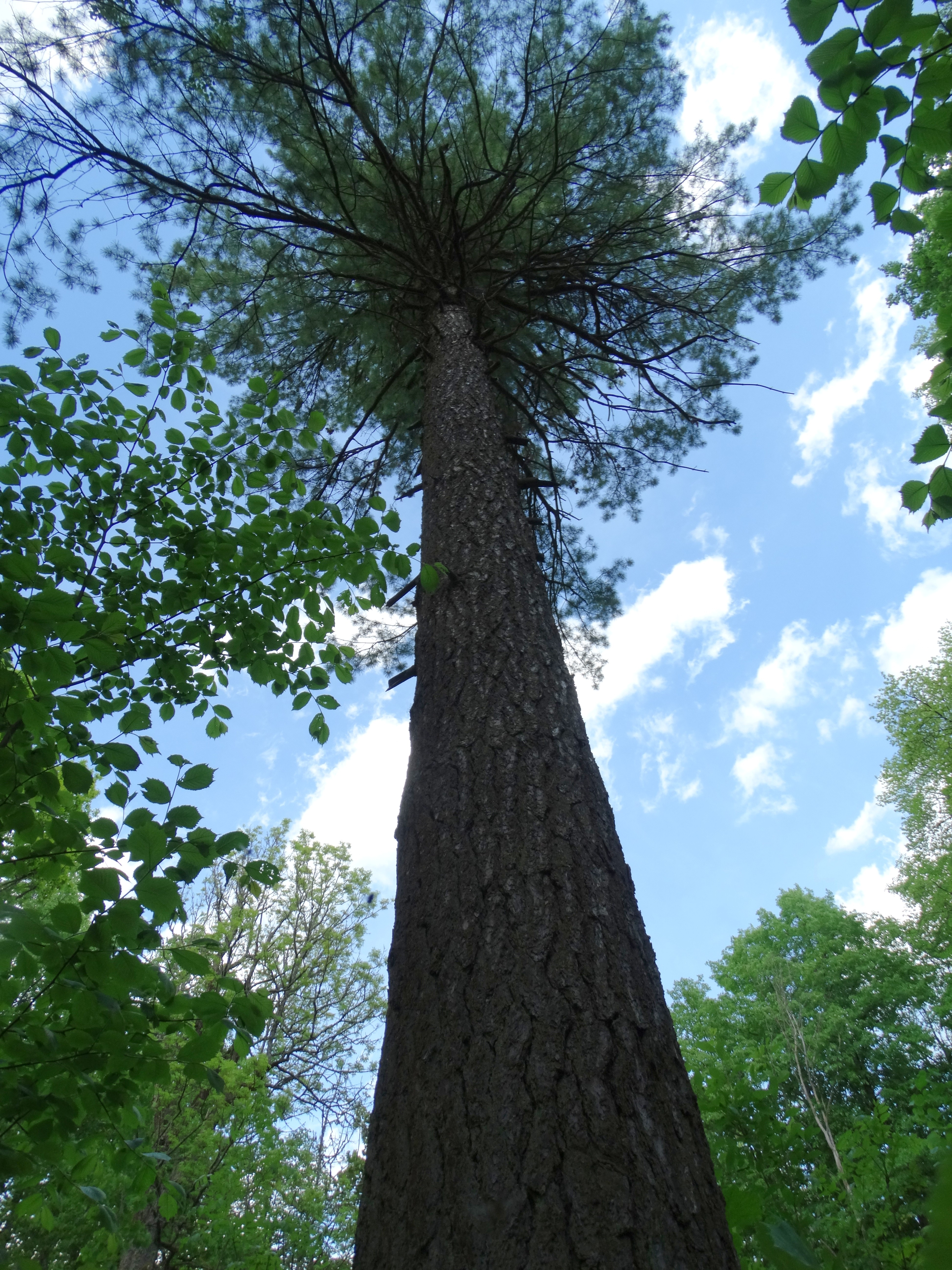 Weymouth pine, Padysnys II, Ignalina district, Lithuania